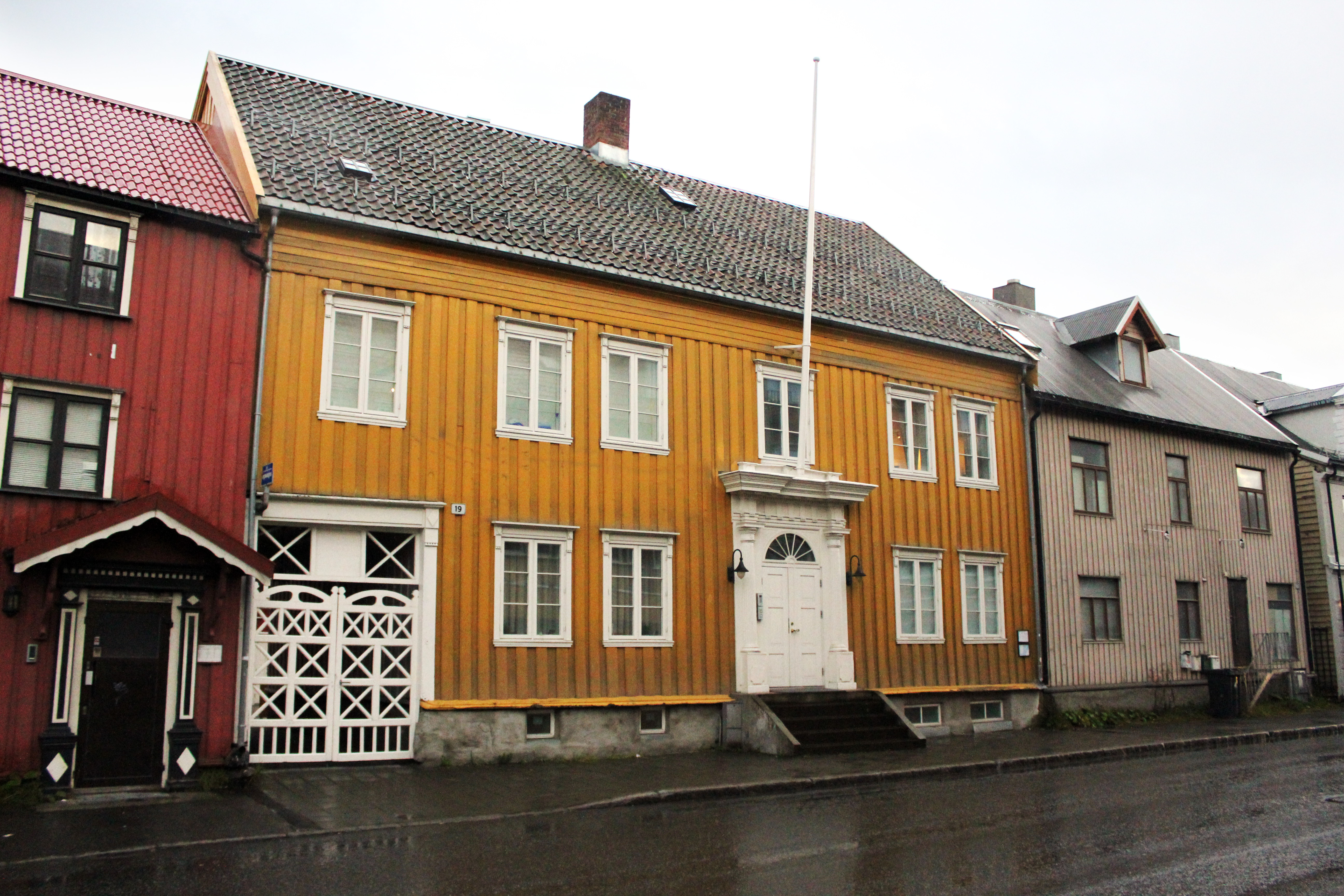 Skippergata 19, Tromsø Norway